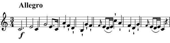 Joseph Haydn, Symphony No. 63, first movement, Violin 1, bar 1-8